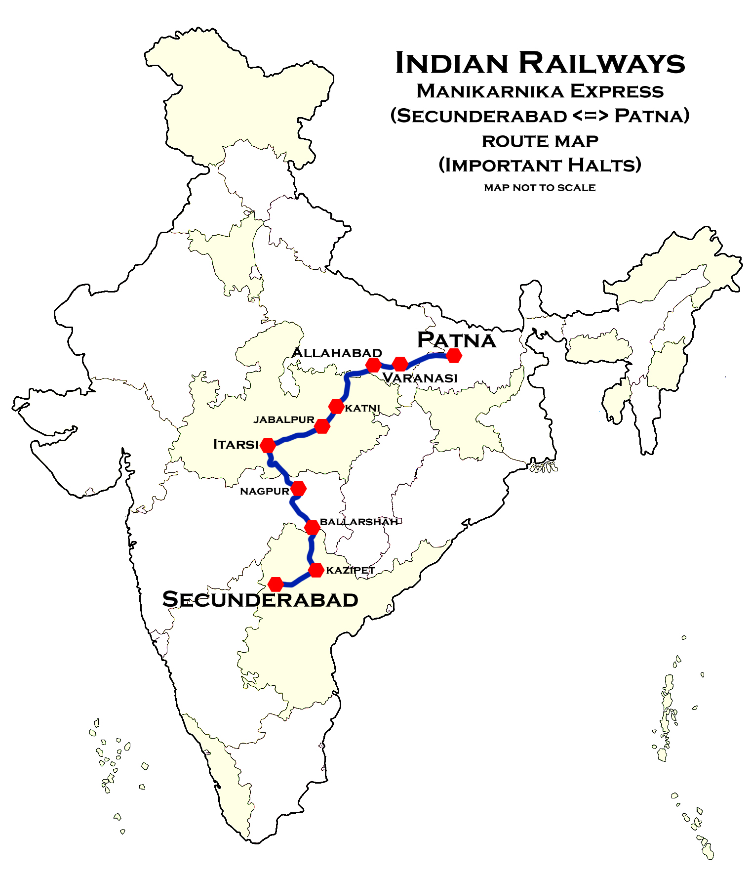 Manikarnika Express (SC - PNBE) Express Route map